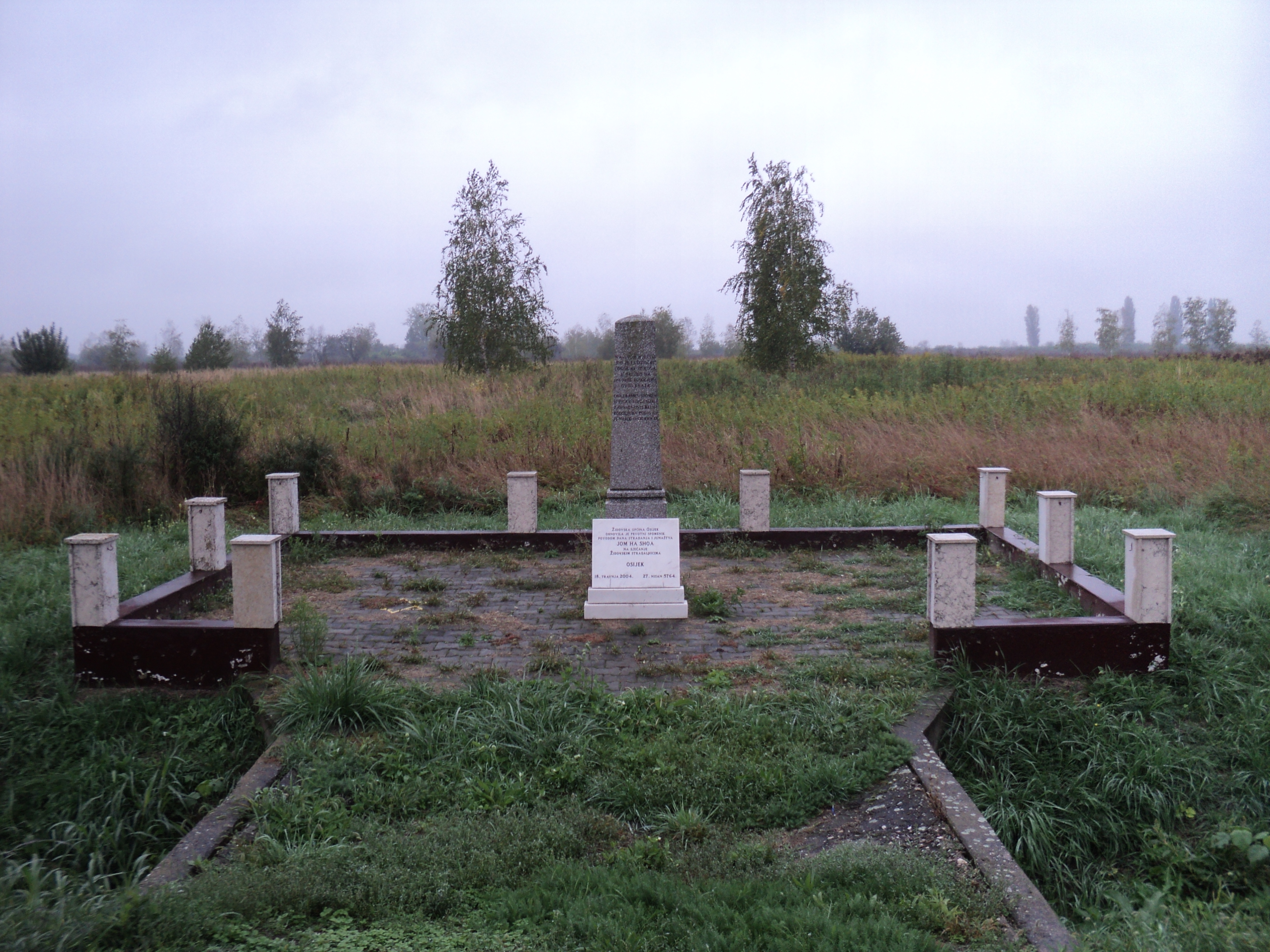 Memorial between Tenja and Osijek, which was the location of the Ustaša concentracion camp for Jews and Serbs in 1942.